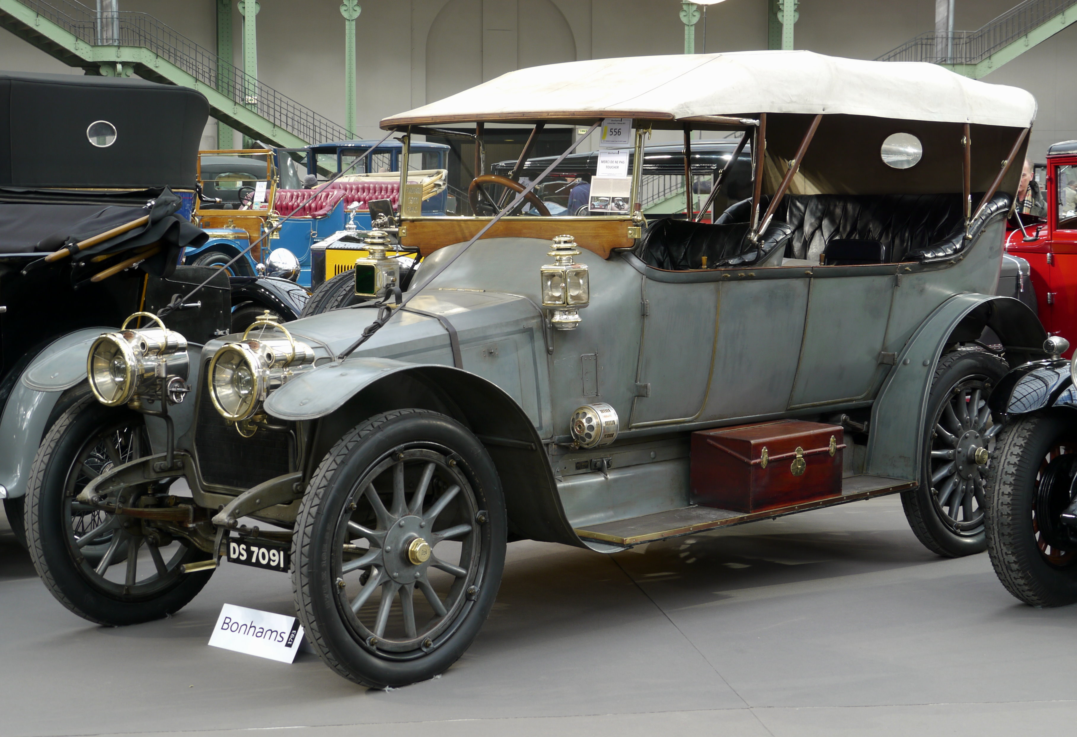 Bonhams Auction, Grand Palais, Paris, 2013